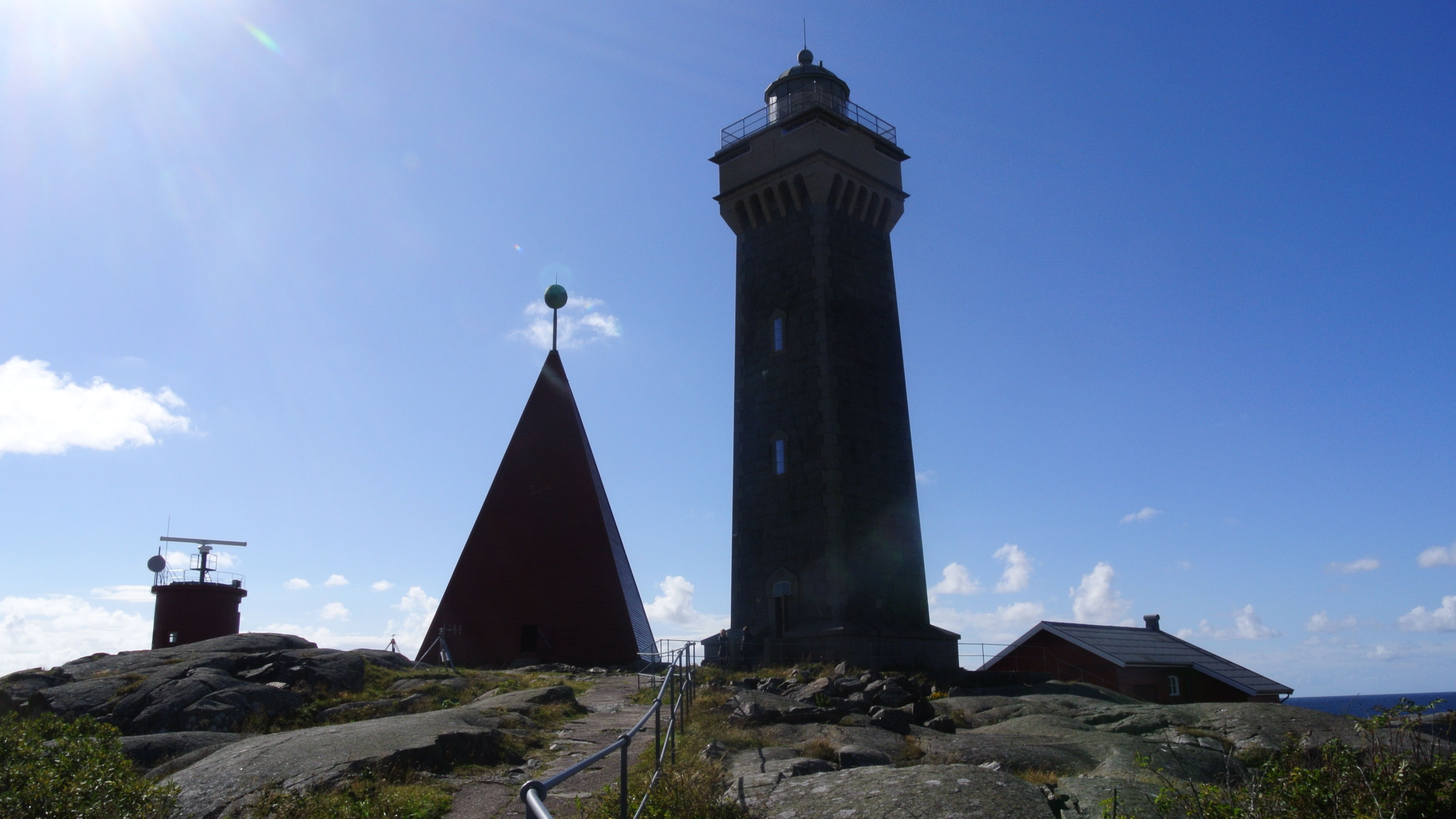 Siluette of Vinga Lighthouse, in the archipelago of Gothenburg on the Swedish westcoast.